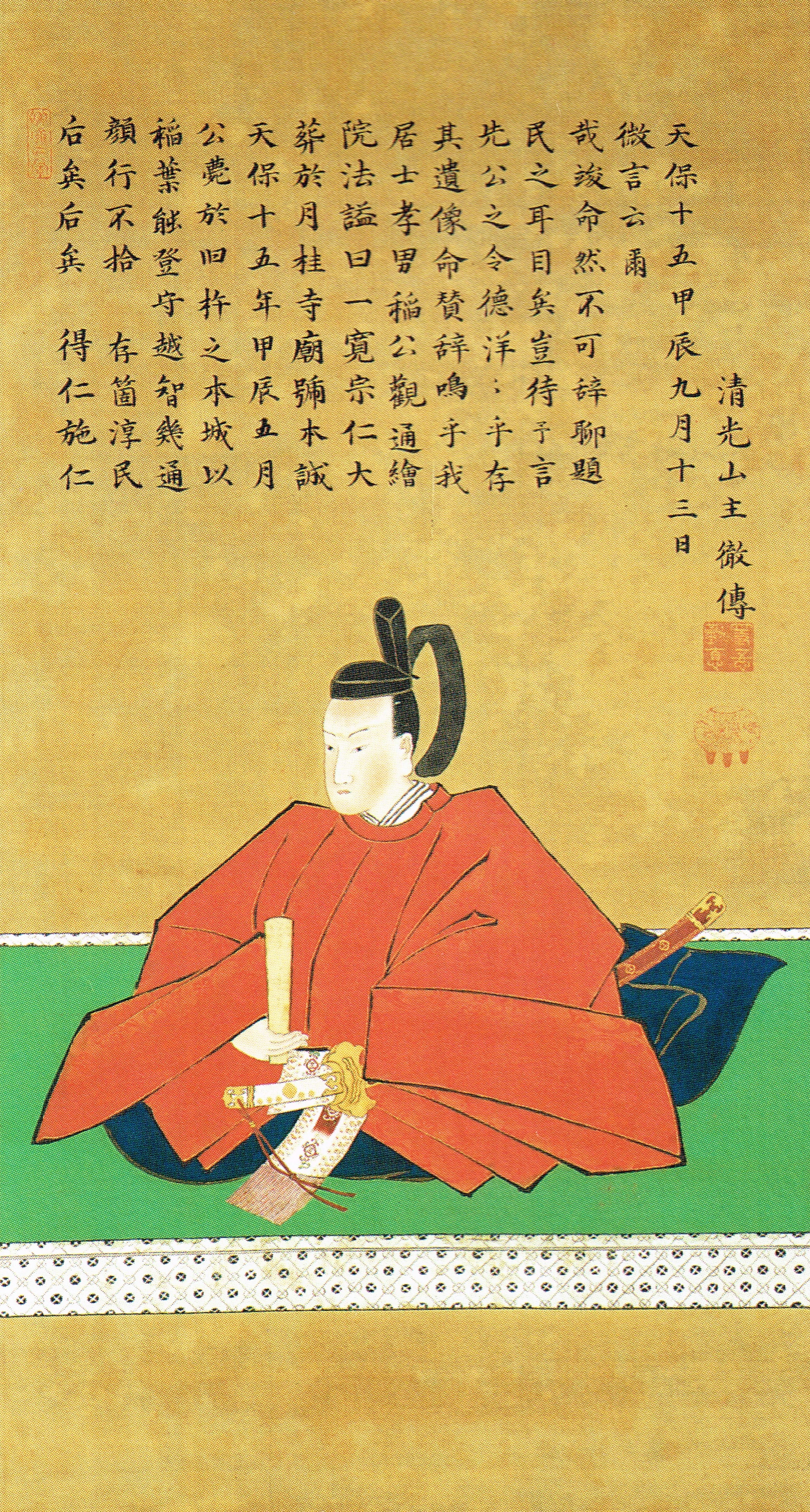 Portrait of Inaba Chikamichi, owned by Gekkei-ji Temple in Usuki, Oita, Japan